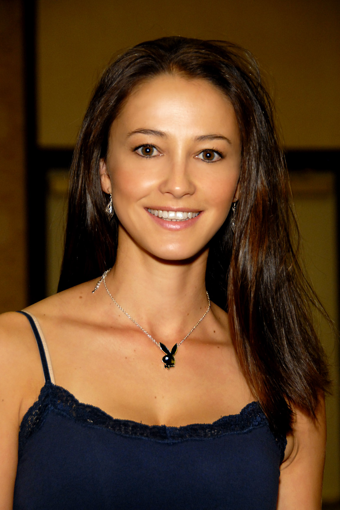 Brooke Berry attending the "Sign Of The Times" model convention at the LAX Marriott, Los Angeles, CA on October 1, 2011 - Photo by Glenn Francis at